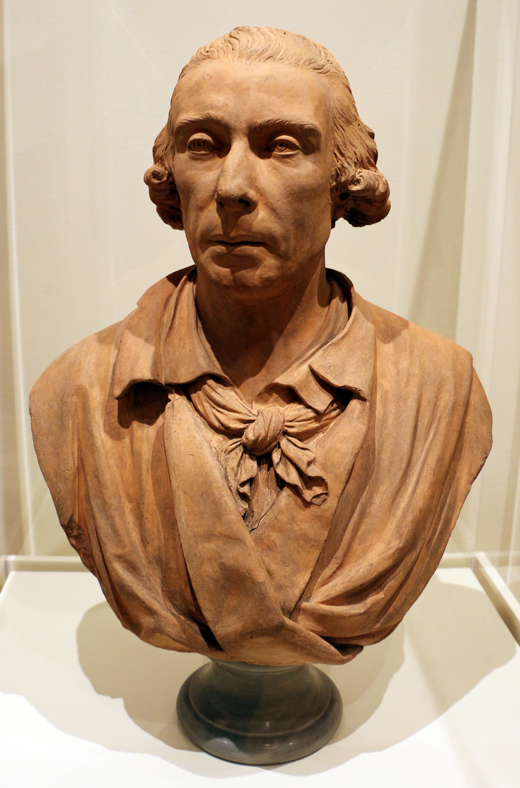 Sculptures in the Milwaukee Art Museum